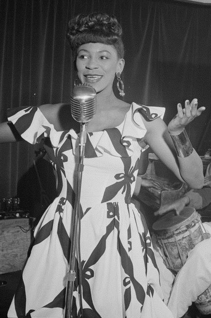 [Cropped portrait of Josephine Premice, Village Vanguard, New York, N.Y., ca. July 1947]